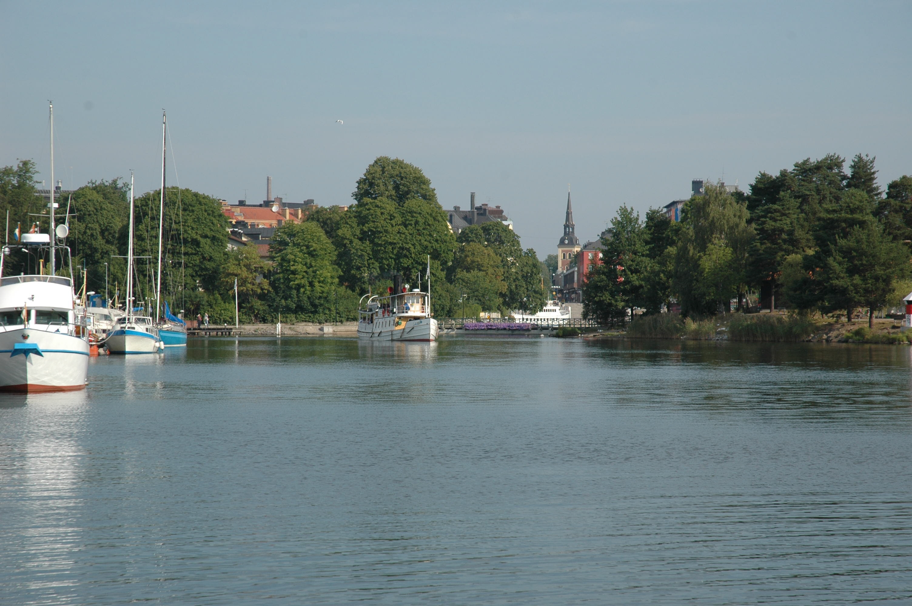 The lake Maren in the city of Södertälje in the Swedish province of Sudermannia. You can se the steamship S/S Ejdern, The Church Saint Ragnhild and the Maren bridge, separating the the inner and outer parts of the lake.